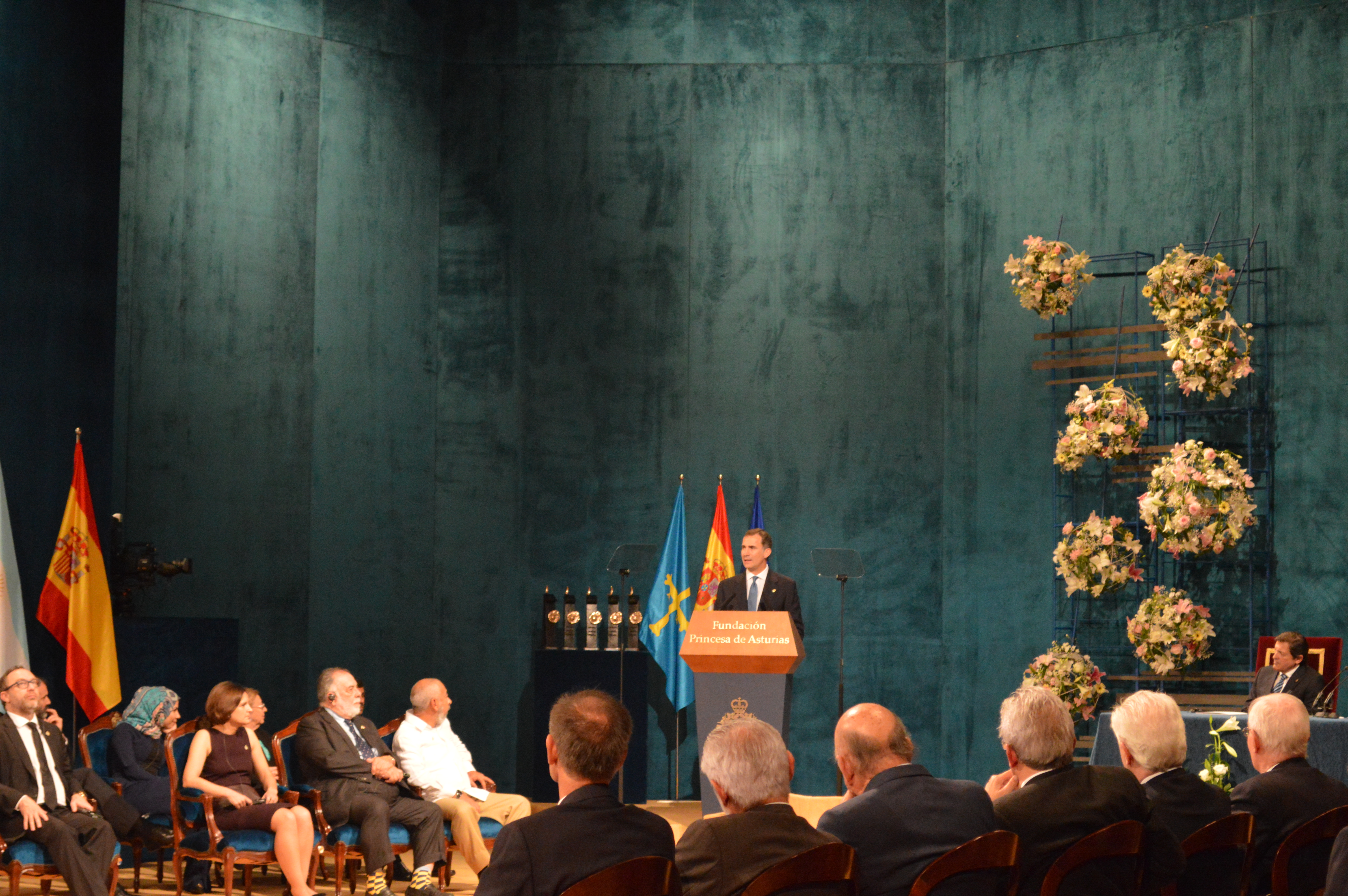 Princess of Asturias Awards